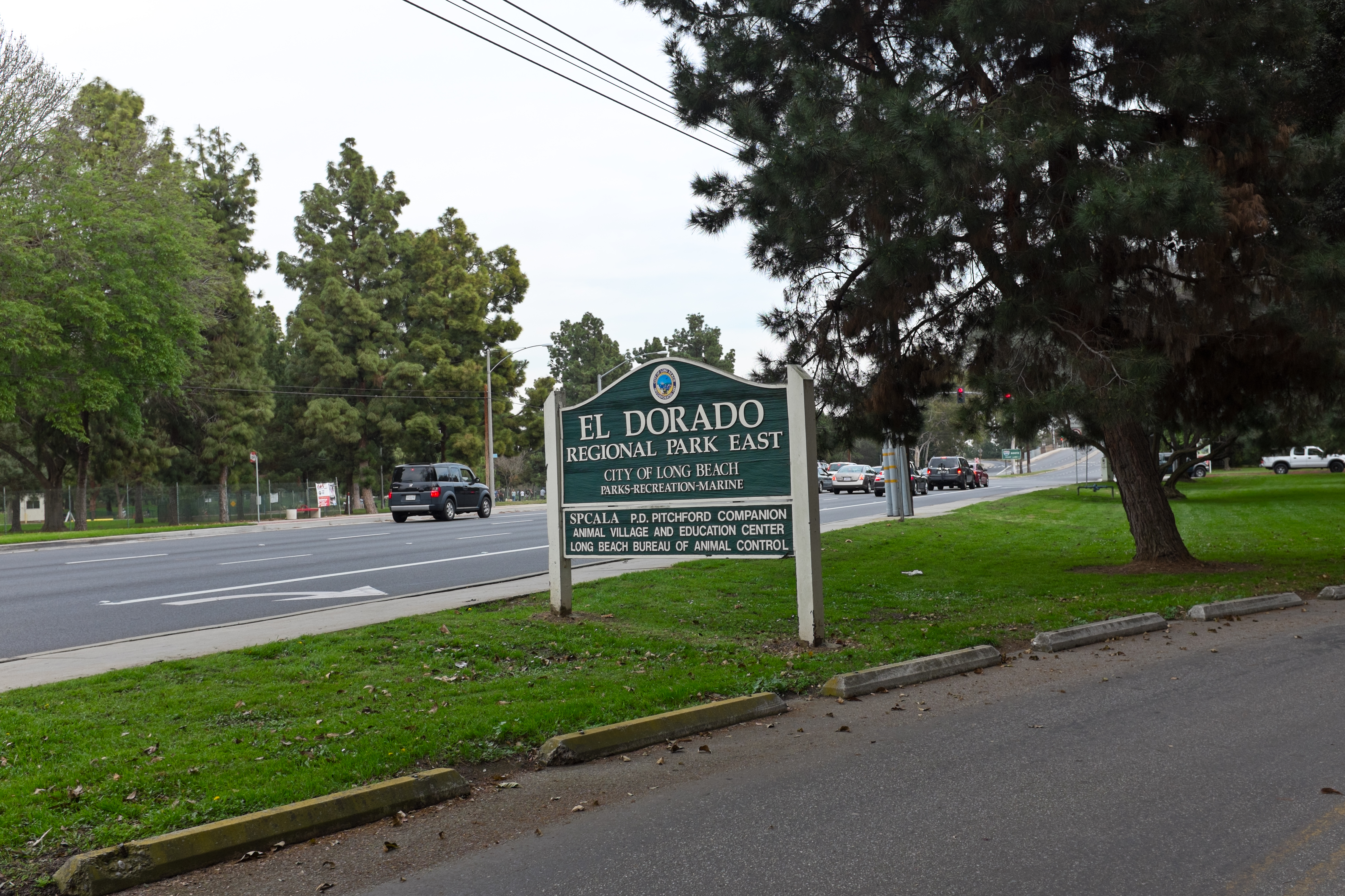 South Entrance of El Dorado Park.